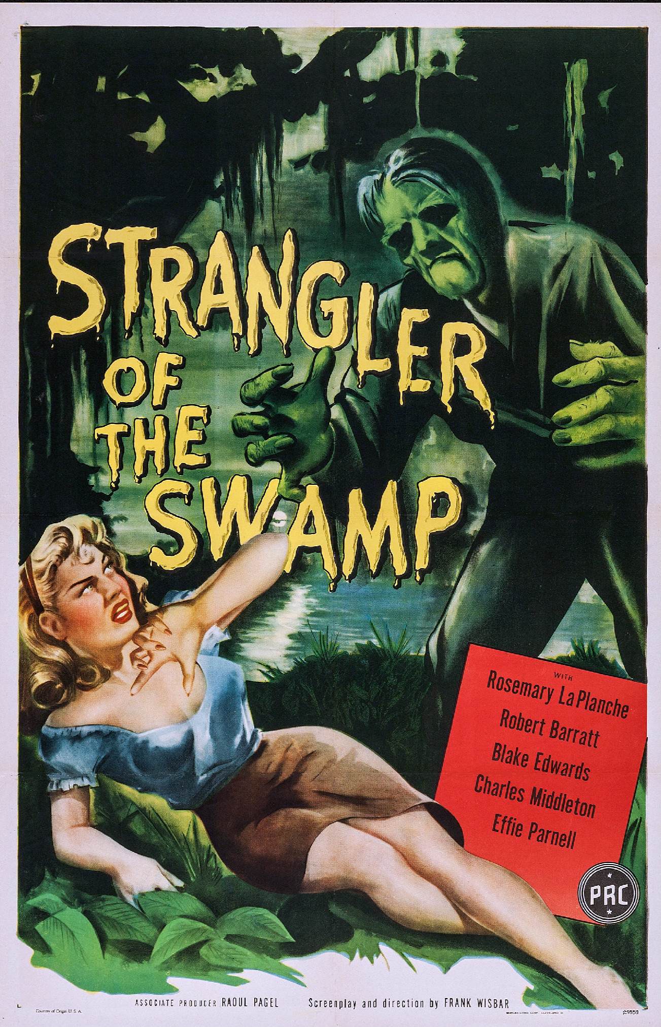 Lobby card for the 1946 film Strangler of the Swamp. The item has no copyright markings on it as can be seen in the links above. At bottom left is Country of origin USA. At bottom right is Morgan Litho Corp., Cleveland, O. 29559.